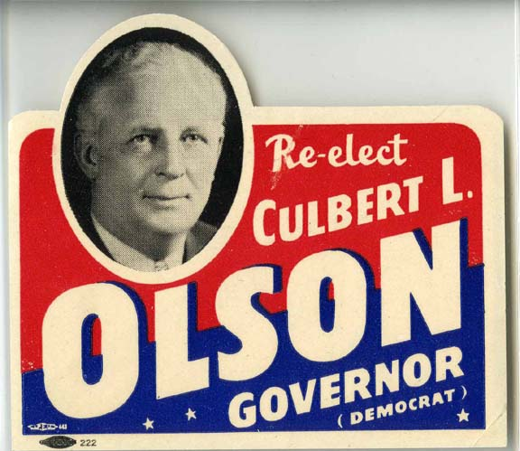 Poster for re-election of Culbert L. Olson as Governor of California, 1942